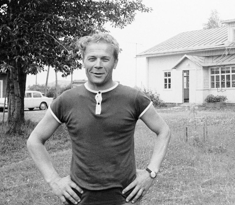 Photograph of the Finnish athlete Kalevi “Häkä” Häkkinen (1928–2017), photographed in front of his home in Hankasalmi.